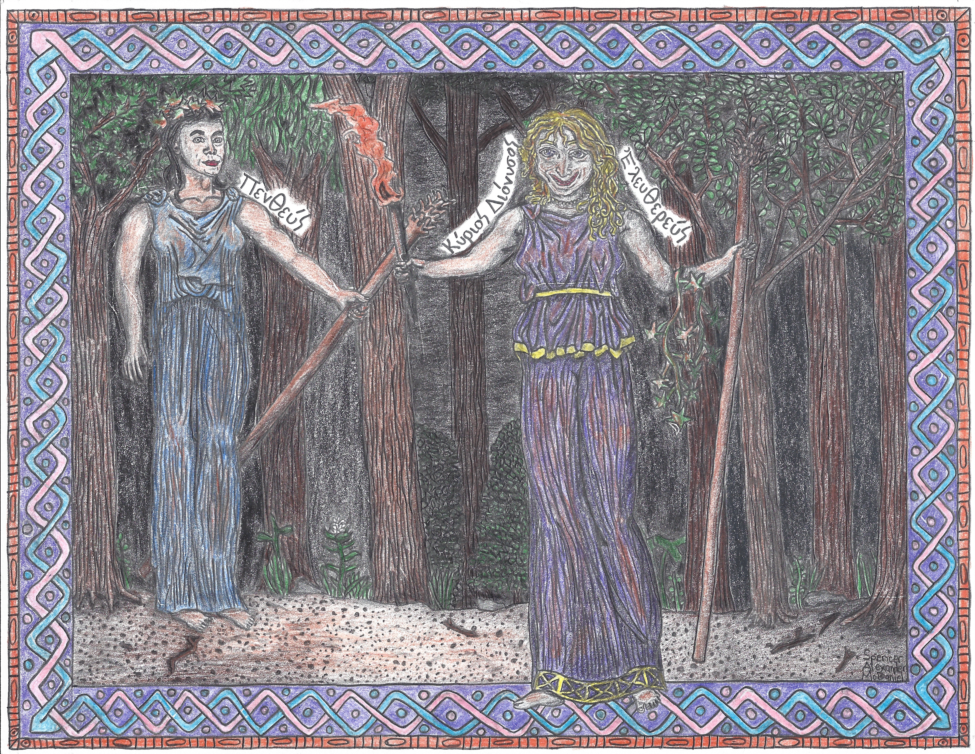 This is a pencil illustration drawn in May 2020 by Spencer Alexander McDaniel depicting a scene from Euripides's tragedy The Bacchae in which the god Dionysos leads King Pentheus of Thebes into the forest so that he can be killed by the mainads. In this scene, Dionysos and Pentheus are both disguised as women and dressed up in Dionysian attire, complete with thyrsoi and ivy. Dionysos is portrayed with long hair and pale skin, in keeping with the description of him given by Pentheus in an earlier scene of the play. Dionysos's dress is purple, symbolizing his status as the god of wine. The labels beside the figures say, in Greek, "Pentheus" and "Lord Dionysos [the] Liberator."